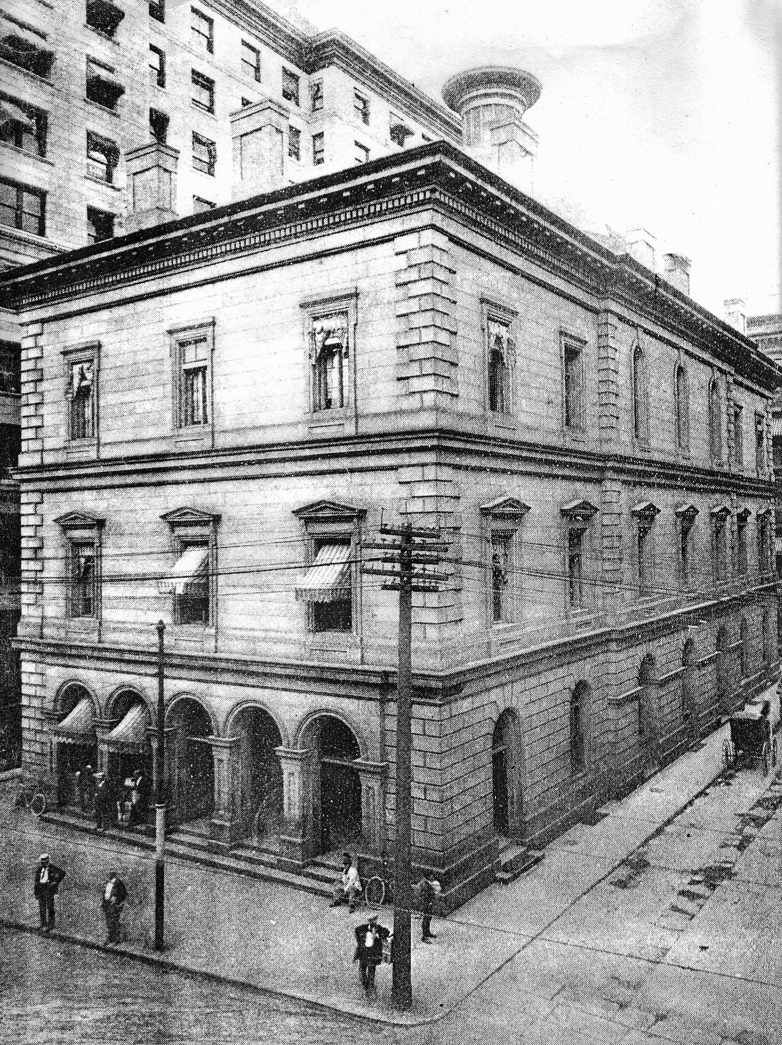 U. S. Customhouse, Providence, Rhode Island. 24 Waybosset Street, Providence, RI.